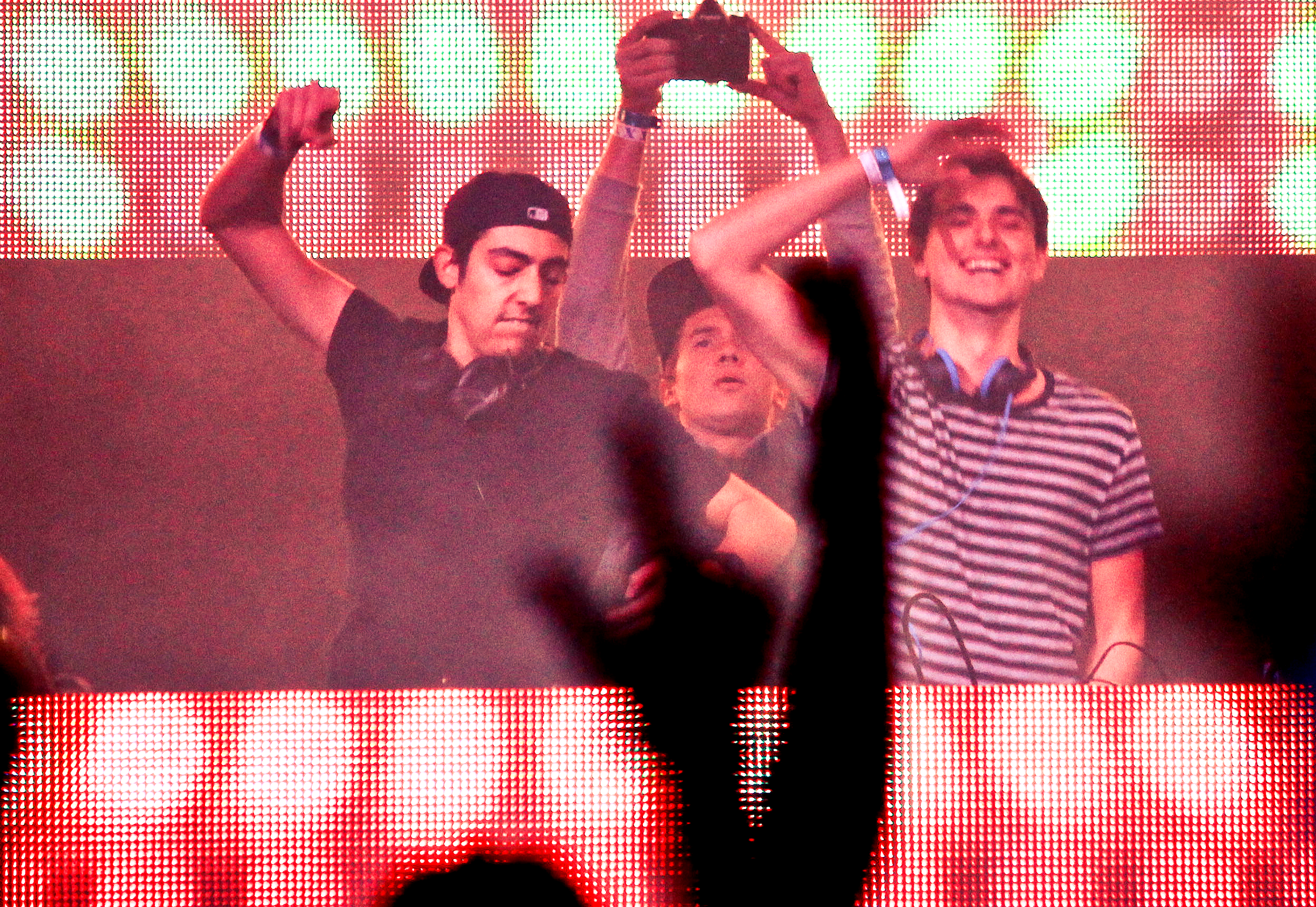 Dzeko & Torres live at Western Homecoming Tent Party 2012